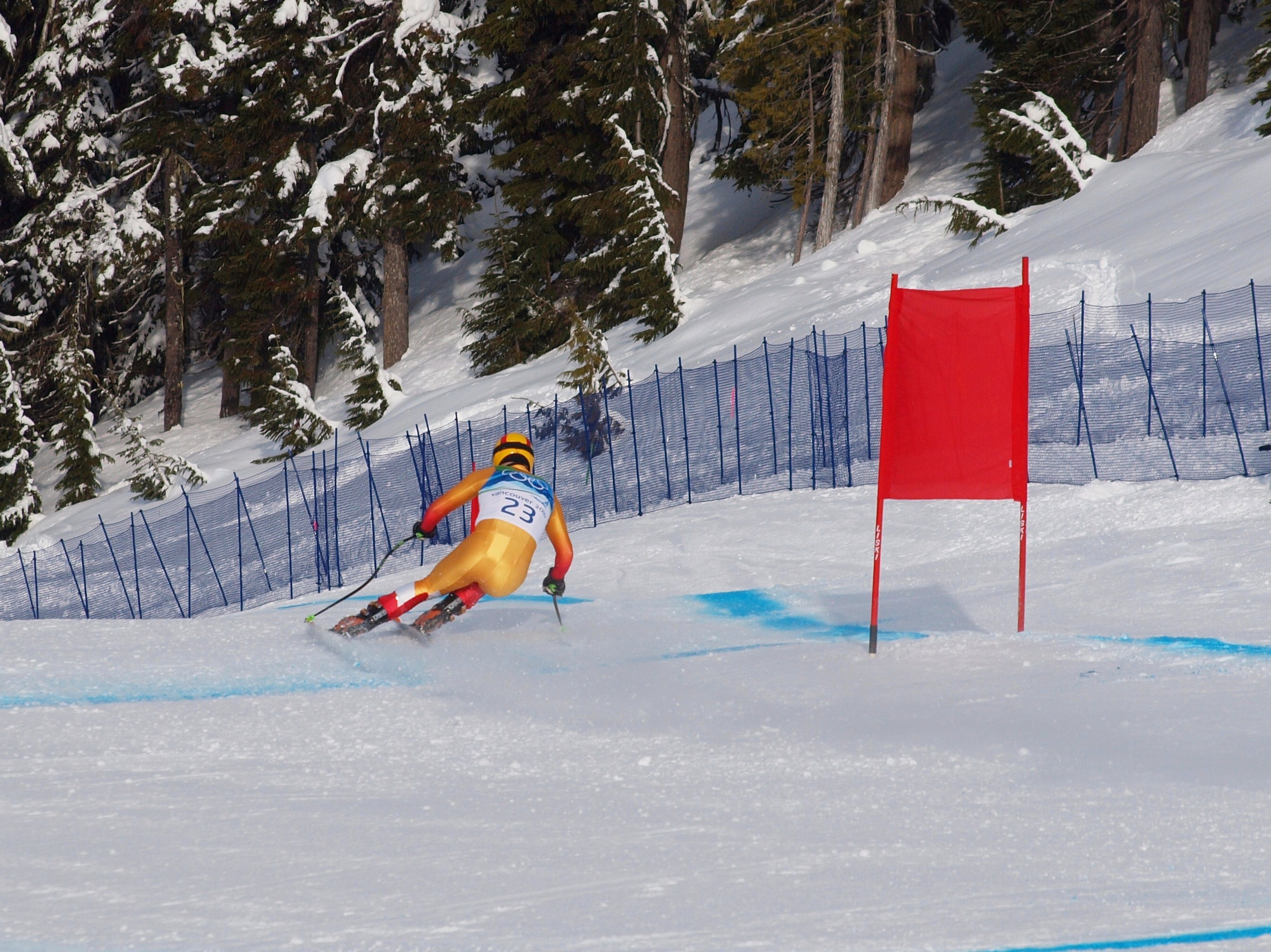 Robbie Dixon at the 2010 Winter Olympic downhill.